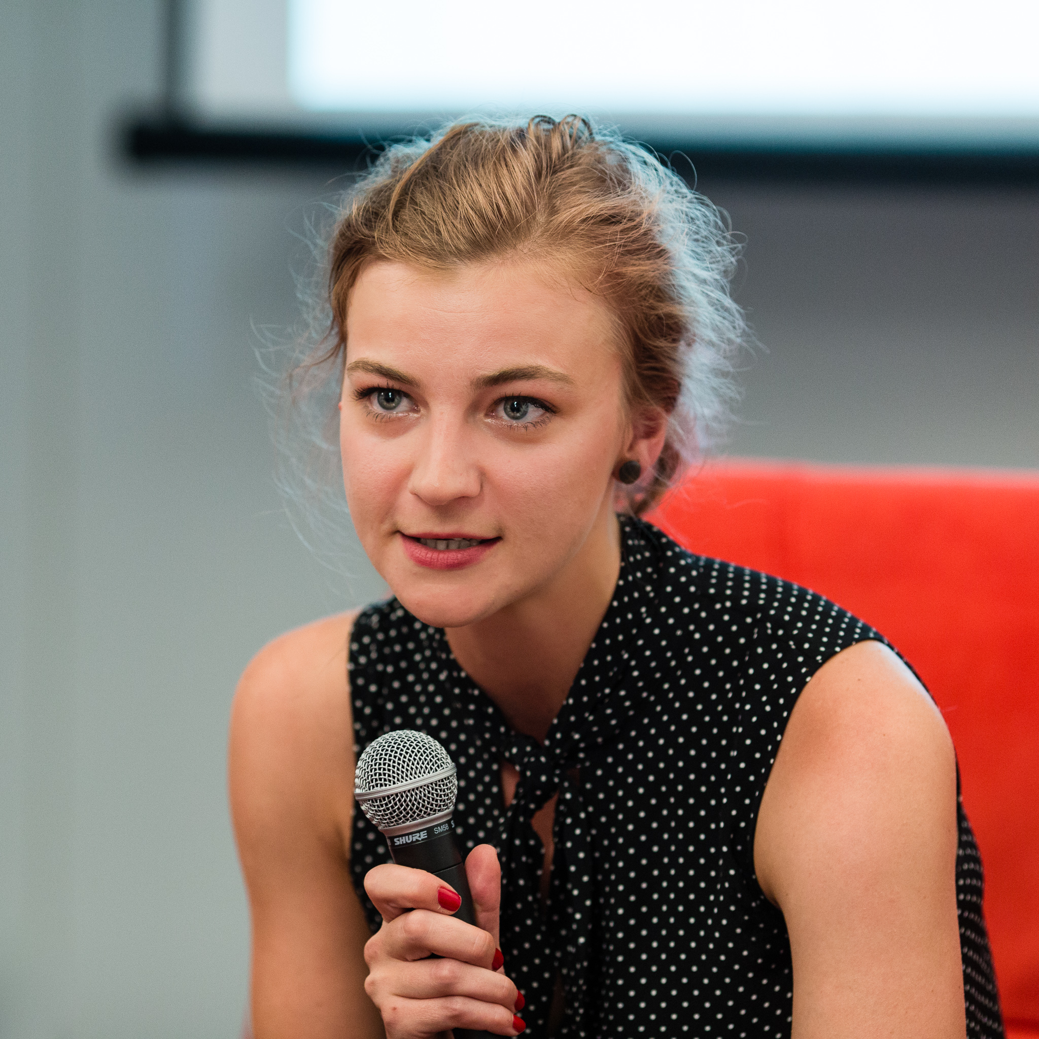 Lucie Faulerová on Authors’ Reading Month 2018, Wrocław, Poland